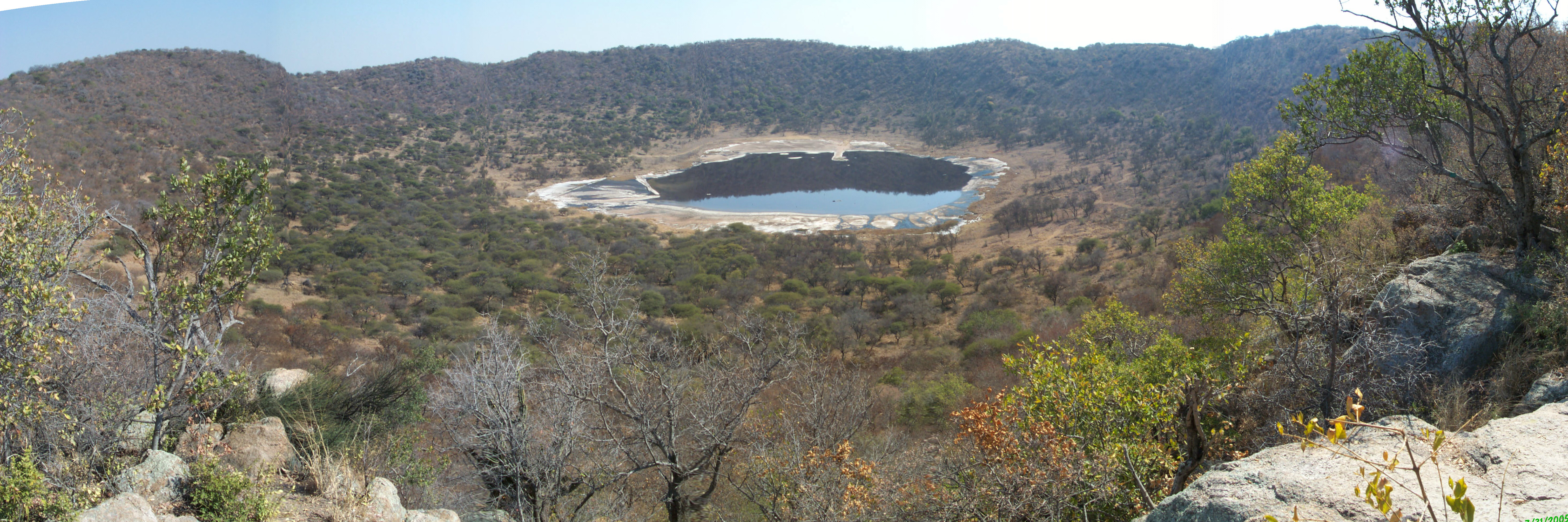 Tswaing crater